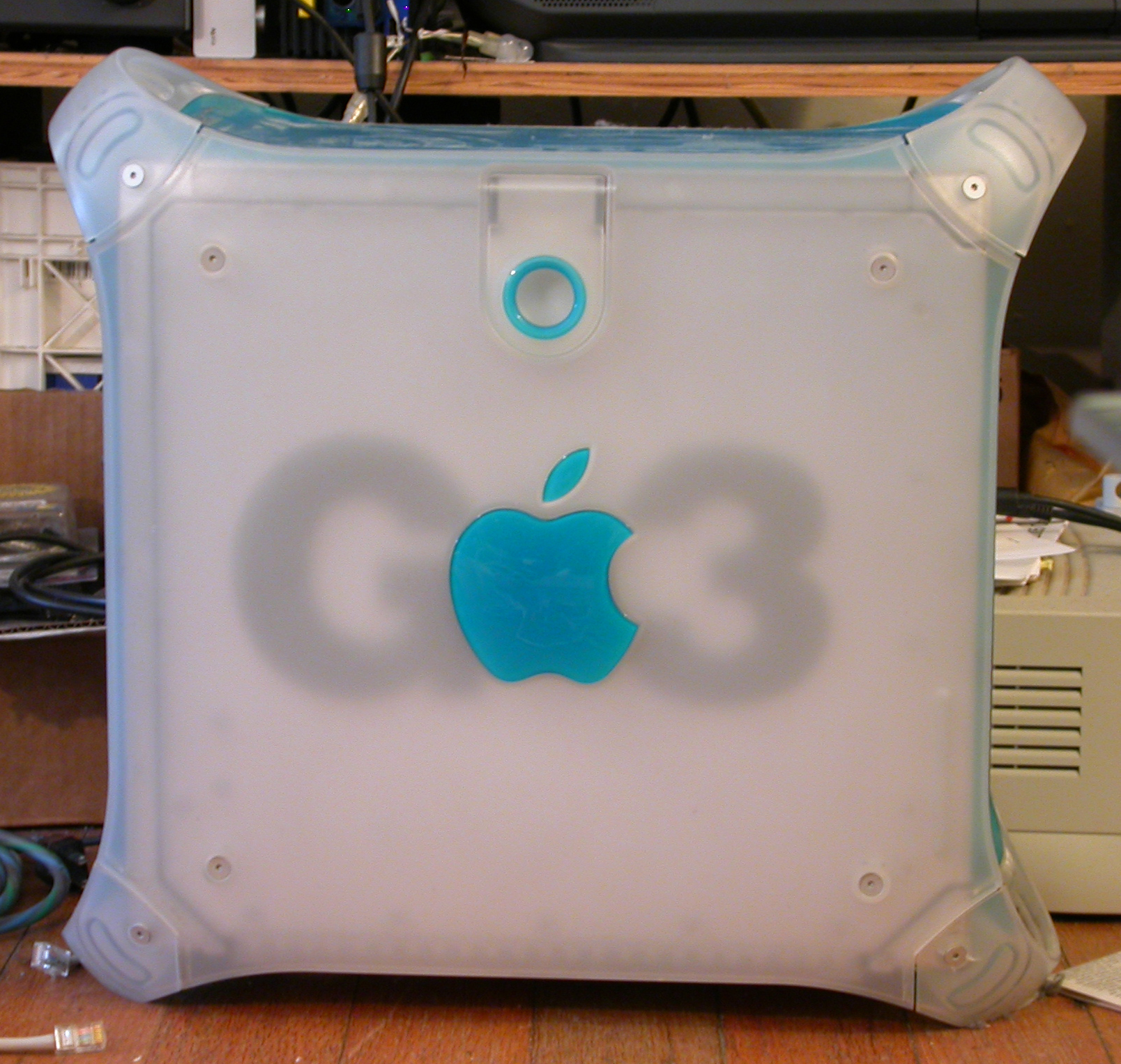 Side view of a blue & white Power Macintosh G3.Old blue